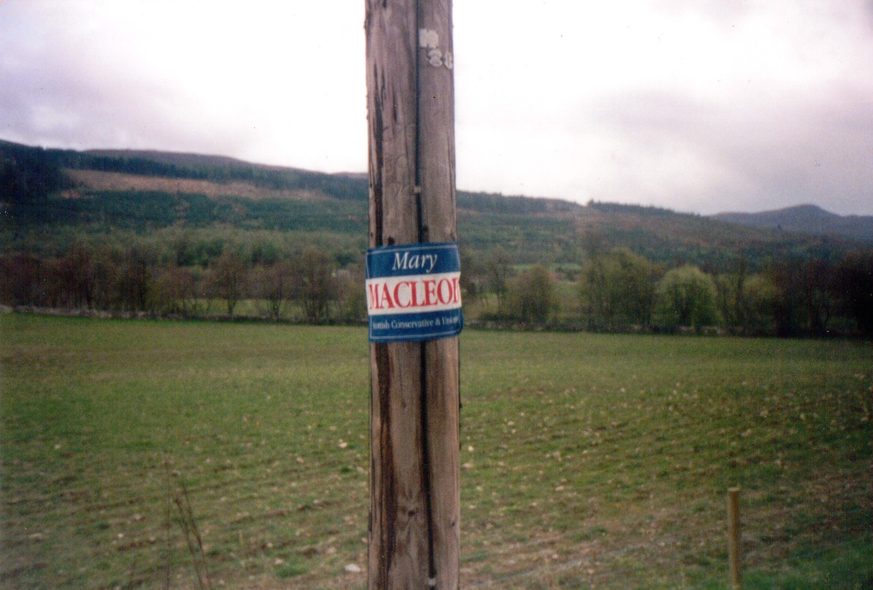 Conservative election poster.